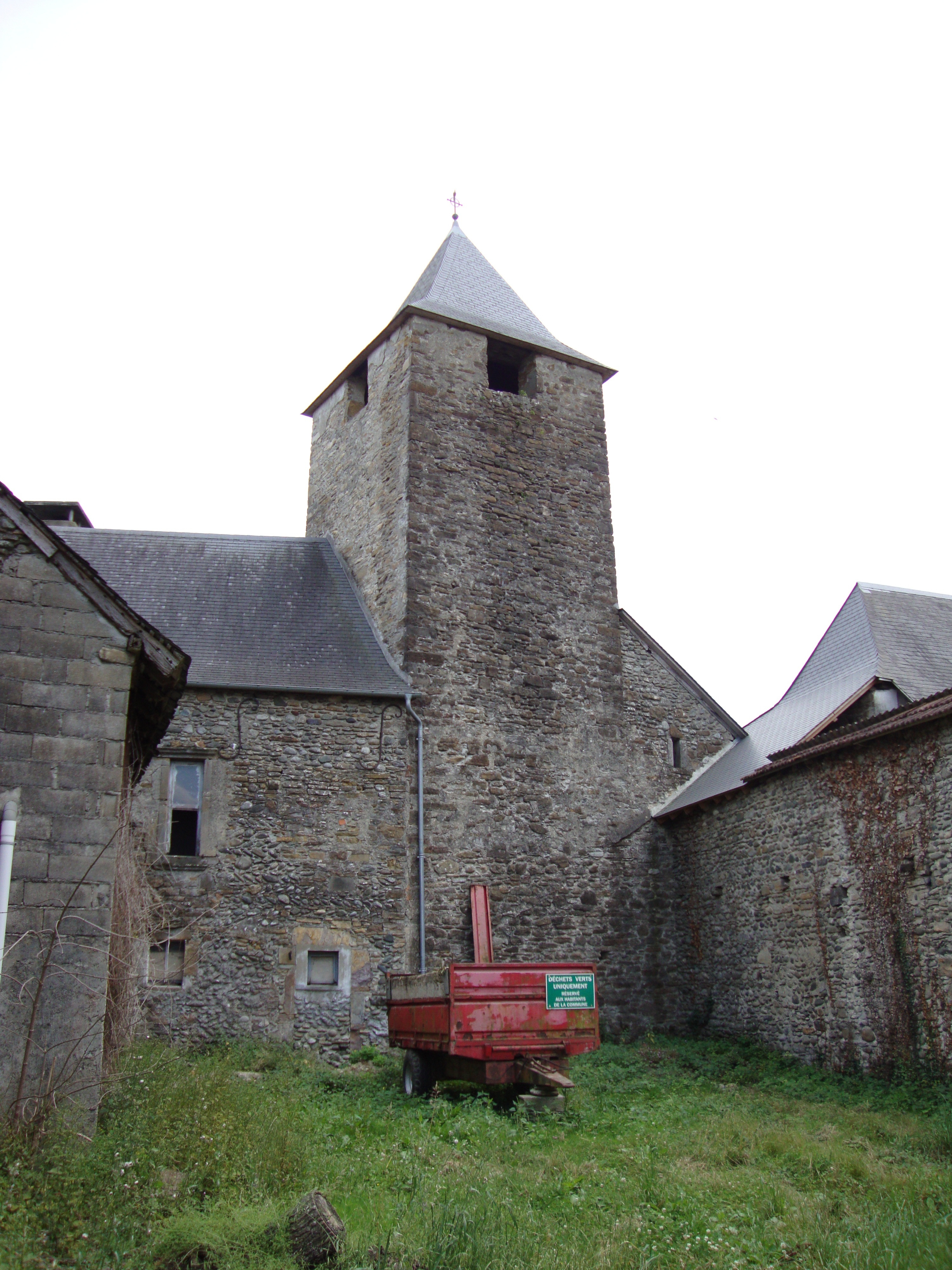 Verdets (Pyr-Atl, Fr) church tower